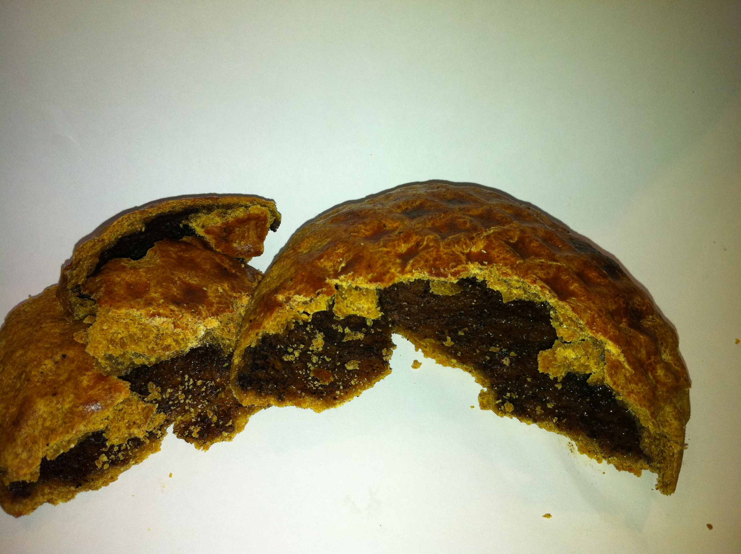 Kleeja